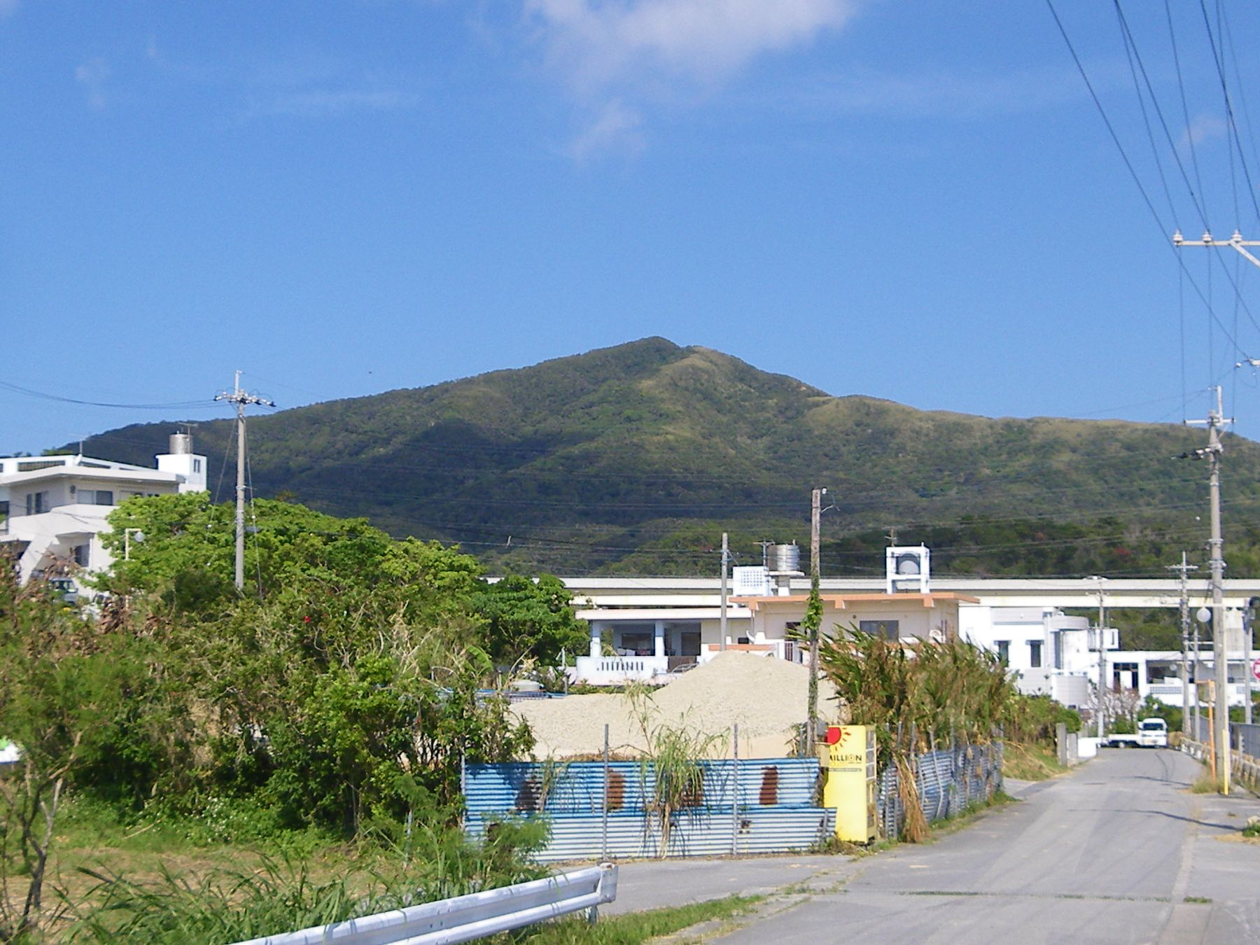 Mount Onna seen from Igei Community Center, Kin Town, Okinawa Prefecture, Japan